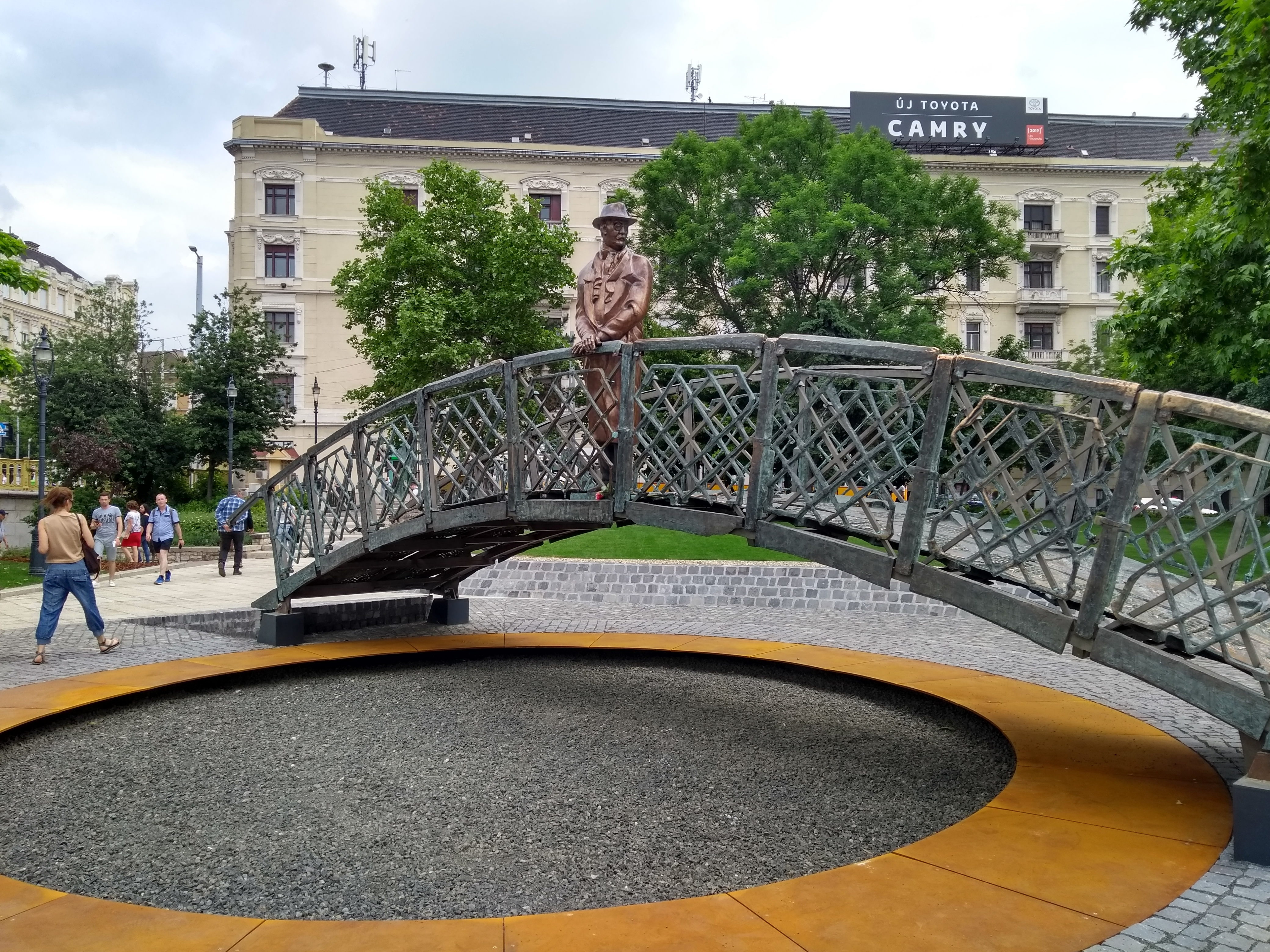 Statue of Imre Nagy in Budapest, relocated from Vértanúk tere, to the renovated southern part of Jászai Mari tér (south of Margaret Bridge), opened on June 5th, 2019